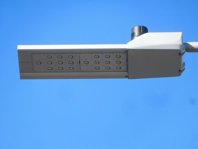 History of street lighting